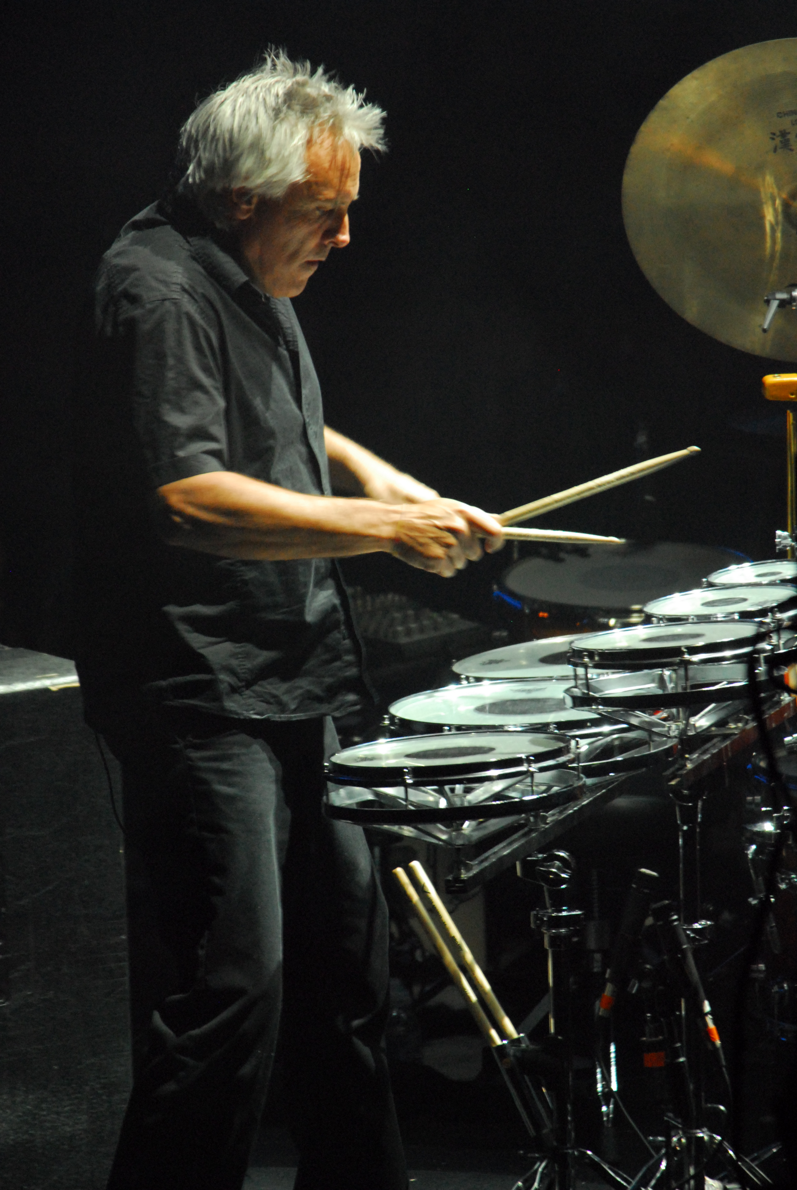 Graham Broad, taken June 6, 2007, Scotiabank Place, Ottawa, Ontario as Grahm Broad performs Pink Floyd's "Time" on the Roger Waters "Dark Side of the Moon Live" Tour